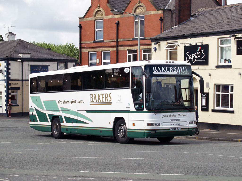 Guideissue Limited (trading as Bakers Coaches) (originally Tellings-Golden Miller Coaches Limited) 16 4085 RU, a Volvo B10M-62 built 1999 with a Plaxton C53F body on Manchester Old Road, Bury at the junction with Manchester Road. Saturday 14th June 2008